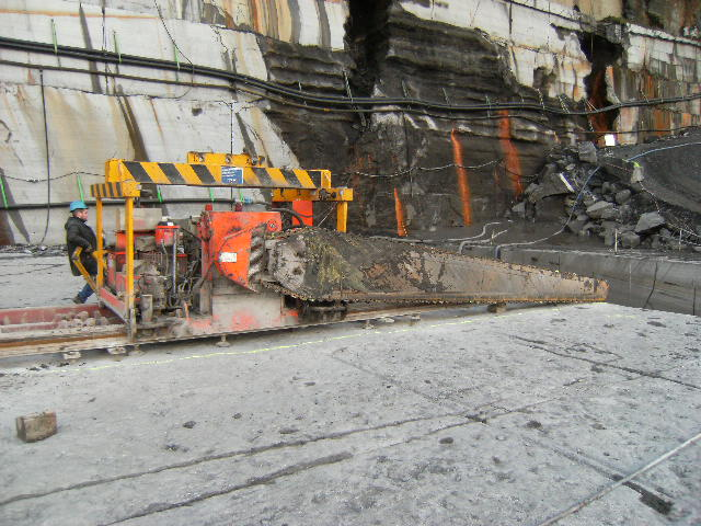 italian sawing machine in a belgian quarry